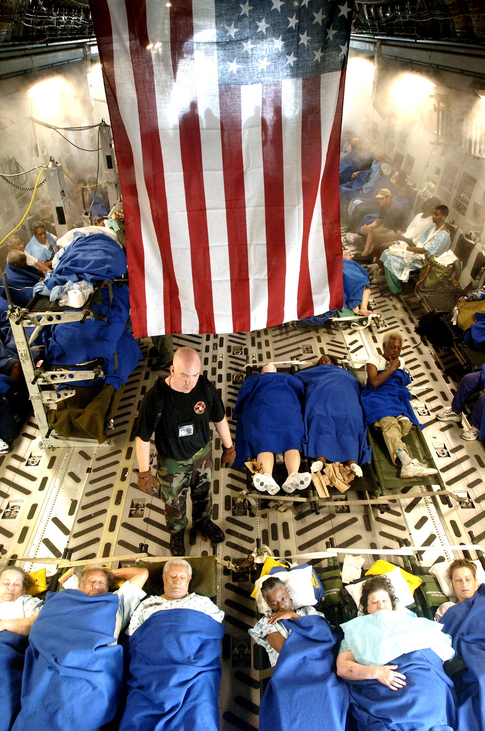 Capt. Gary Hardy helps prepare sick and injured people for a flight aboard a C-17 Globemaster III. They are being evacuated from the devastation left by Hurricane Katrina to Dobbins Air Force Base, Ga. Captain Hardy a flight nurse with the 43rd Aeromedical Evacuation Squadron, at Pope AFB, N.C., and other Air Force Critical Care Aeromedical Teams have cared for thousands of evacuees. The aircraft and flight crew are from the 446th Airlift Wing at McChord Air Force Base, Wash. (U.S. Air Force photo Master Sgt. Lance Cheung)